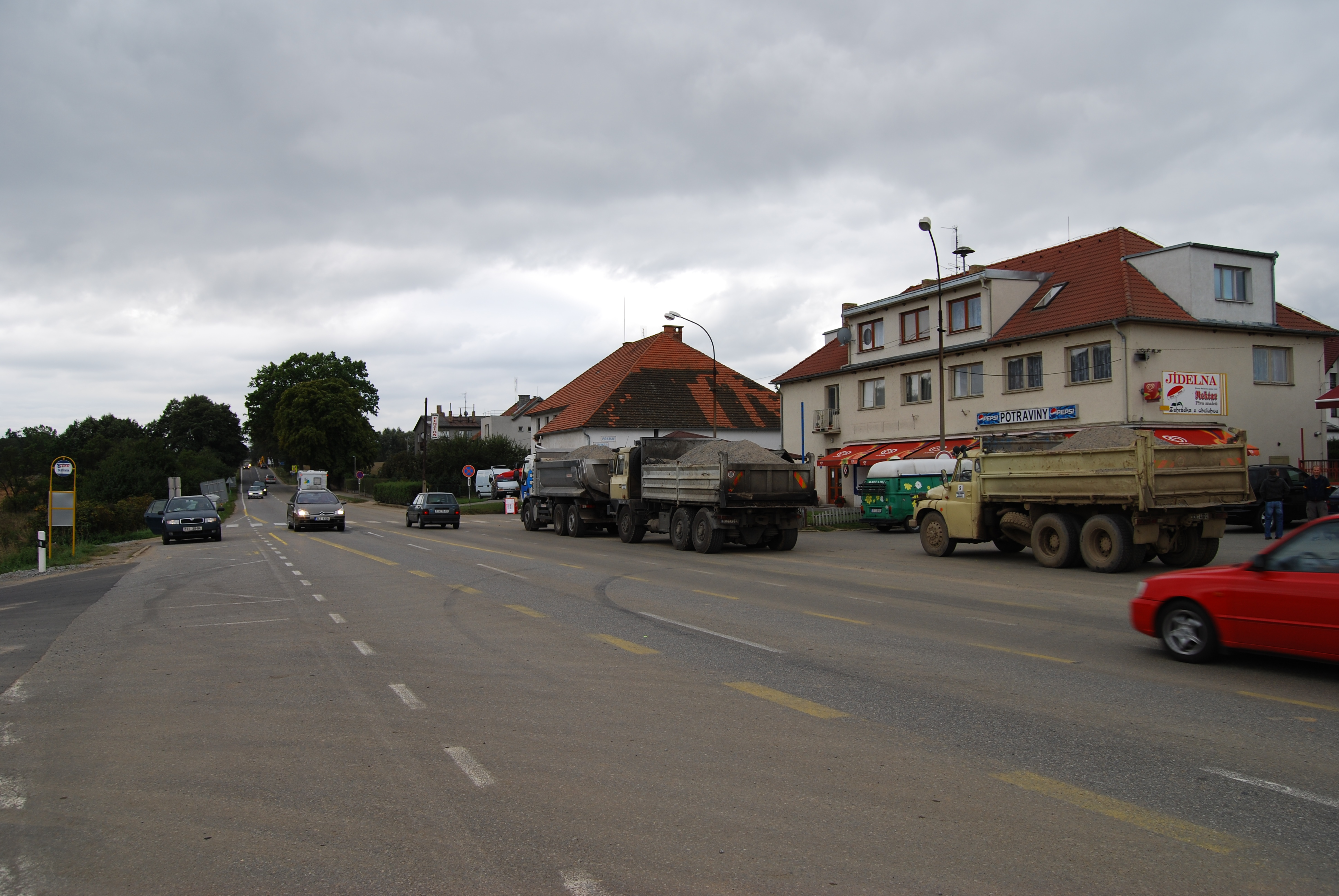 Předotice village in Pisek District, Czech Republic.